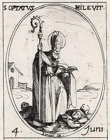 Mackelvie Trust Collection, Auckland Art Gallery Toi o Tamaki, bequest of Dr Walter Auburn, 1982